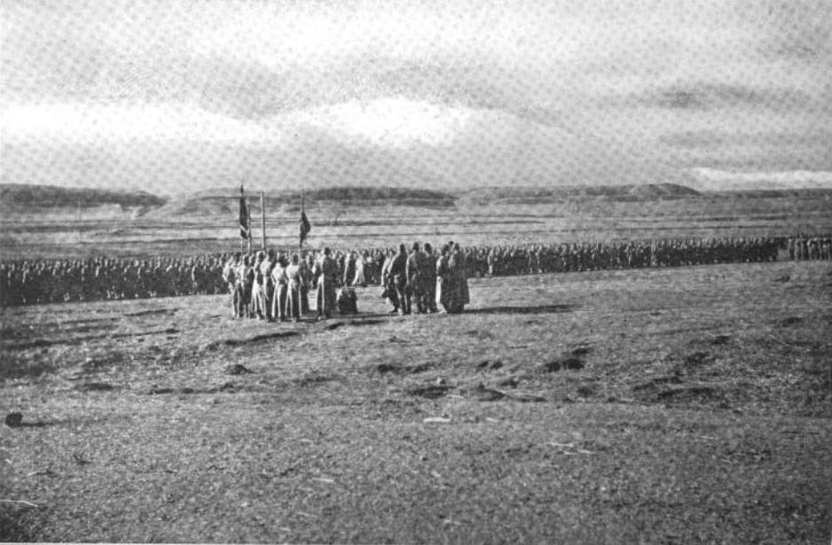 Original caption: Russian troops and Armenian volunteers under Col. Antranik, the Armenian national hero, marching on Bitlis, Col. Antranik was decorated by the Russian government for the capture of Bitlis